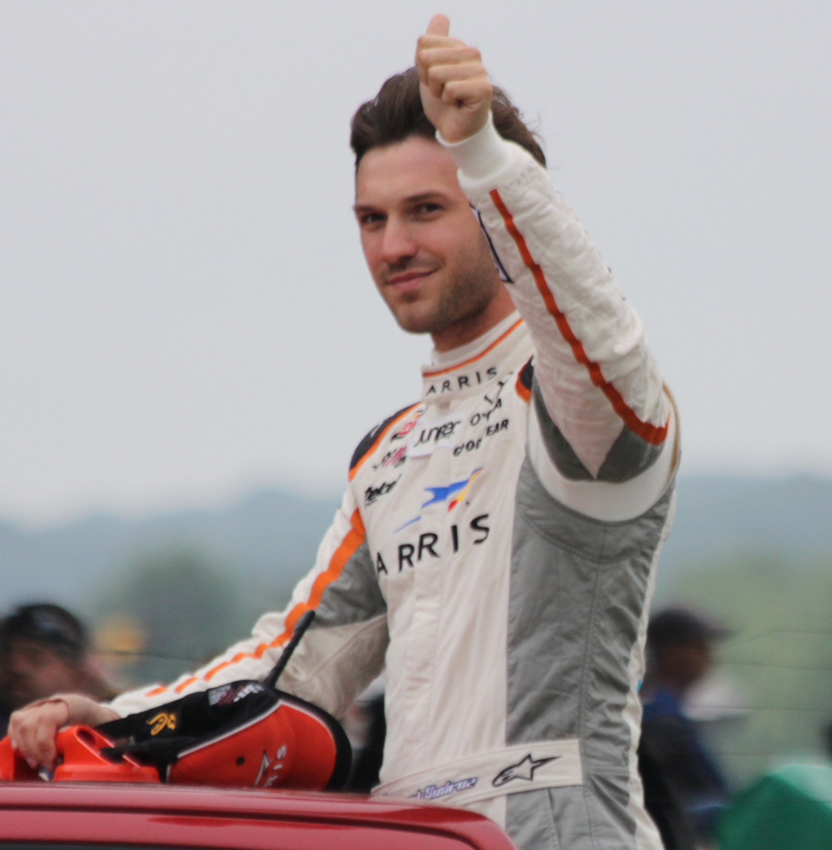 NASCAR driver Daniel Suarez waves to the crowd during drivers introduction at the Xfinity Series race at Road America.